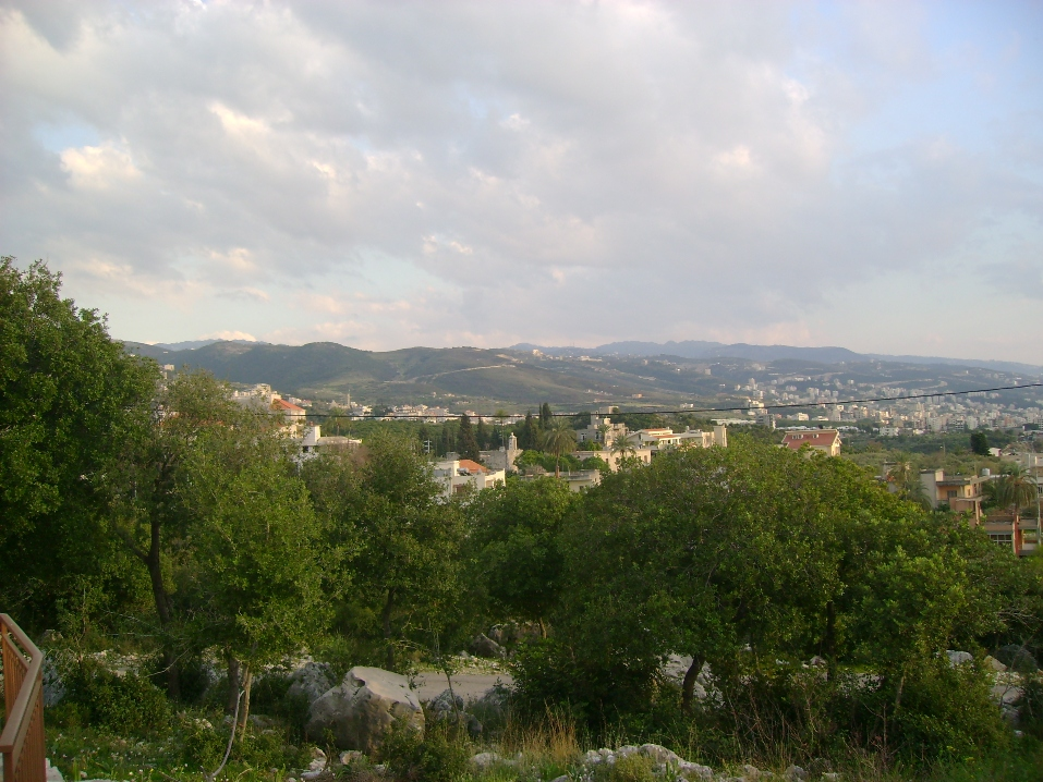 Edde Village